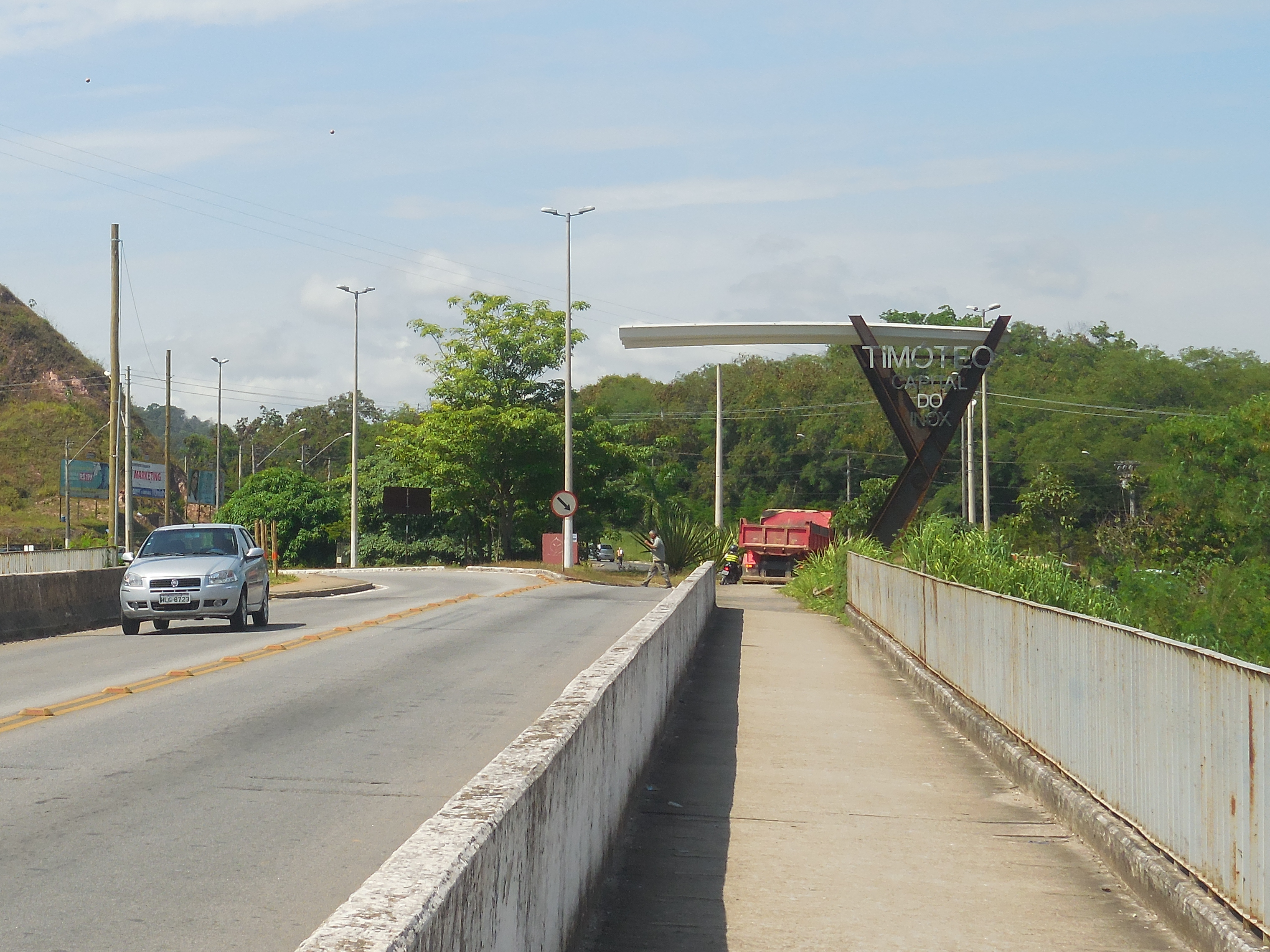 Entrance of Timóteo, Minas Gerais, Brazil, through the Mariano Pires Pontes bridge.